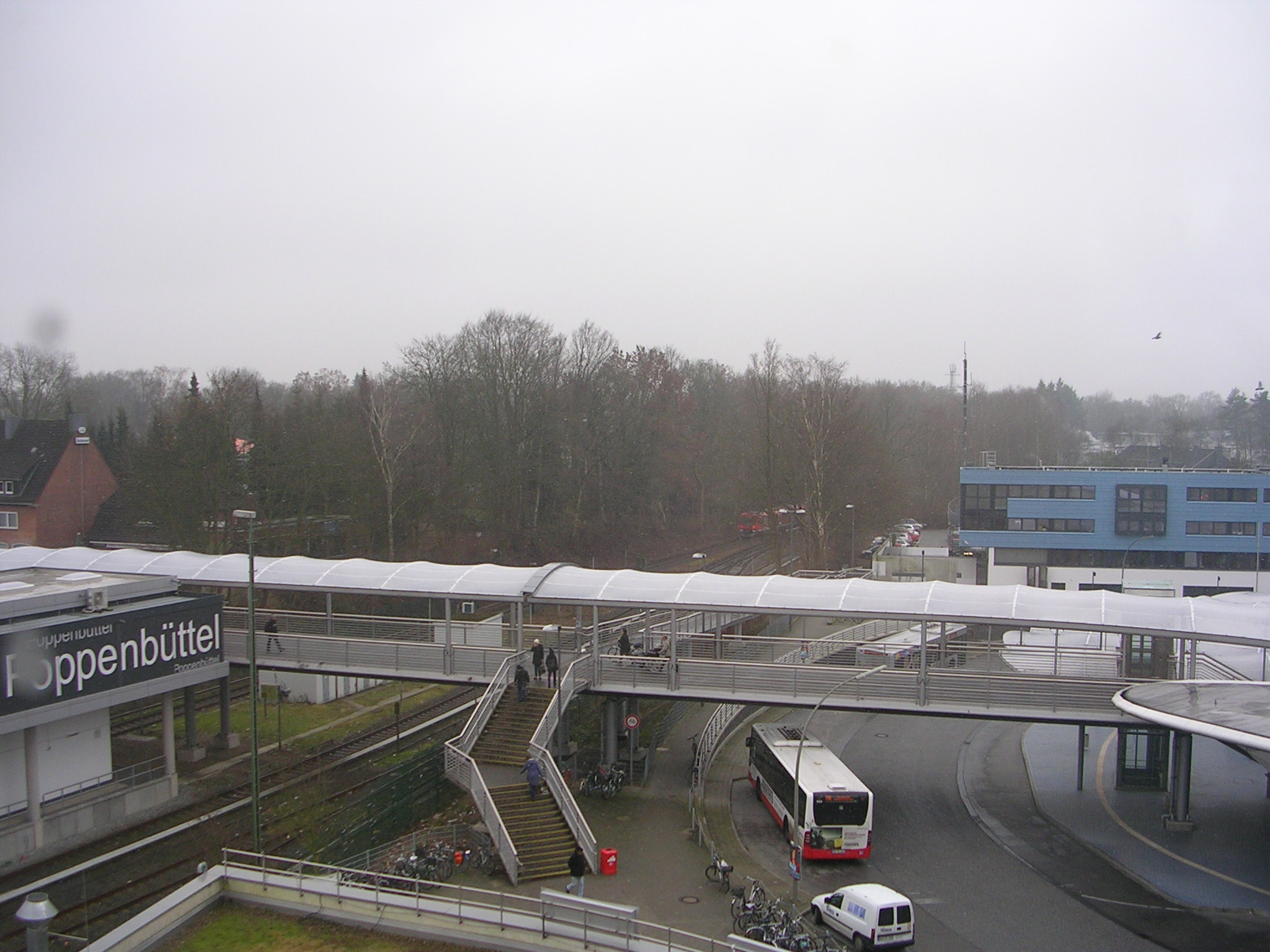 Interchange station bus/Terminal S-Bahn station (suburban train) Hamburg-Poppenbüttel including barrier-free facilities (lifts, ramps)